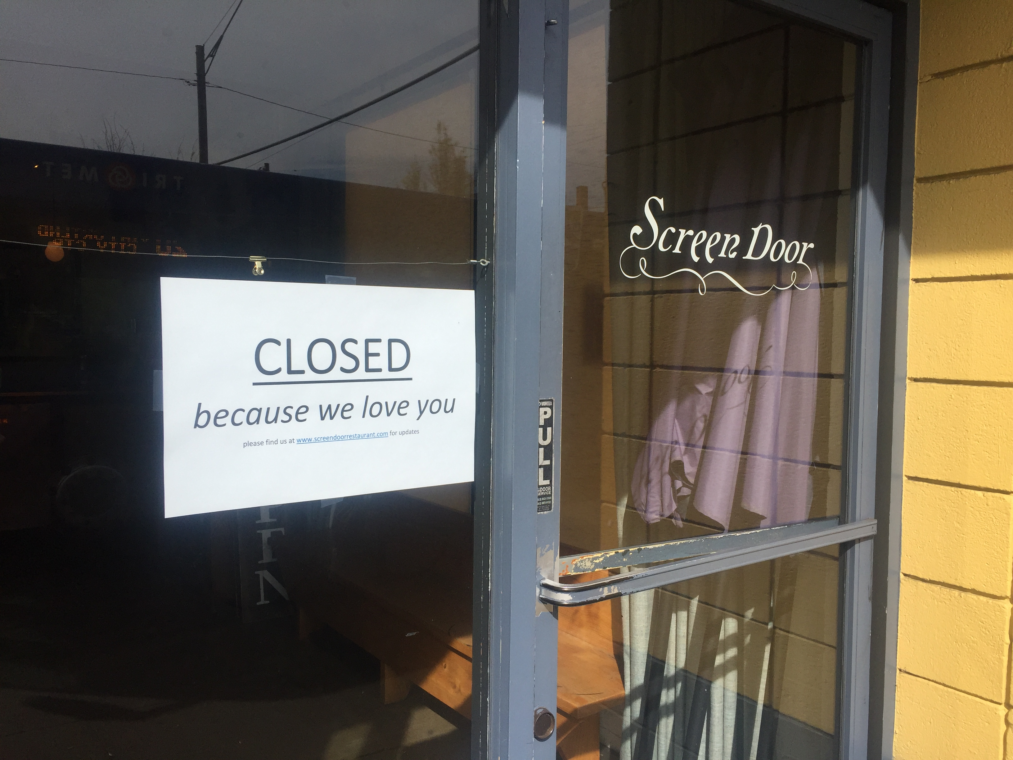 Movie theaters and restaurants in Portland Oregon closed immediately the week of March 16 under orders from the state in the midst of the COVID epidemic.